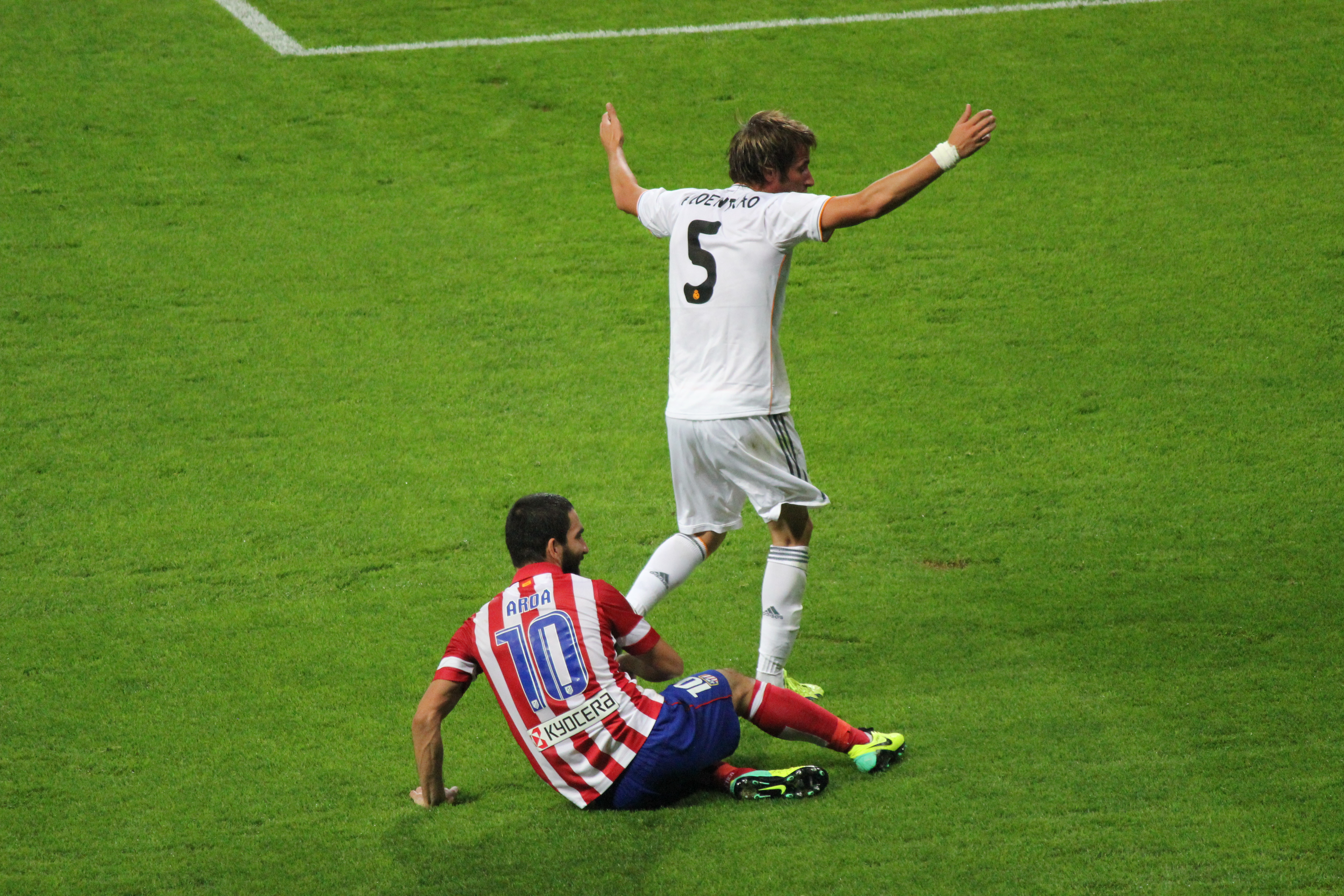 Real Madrid vs. Atlético Madrid 28 September 2013.